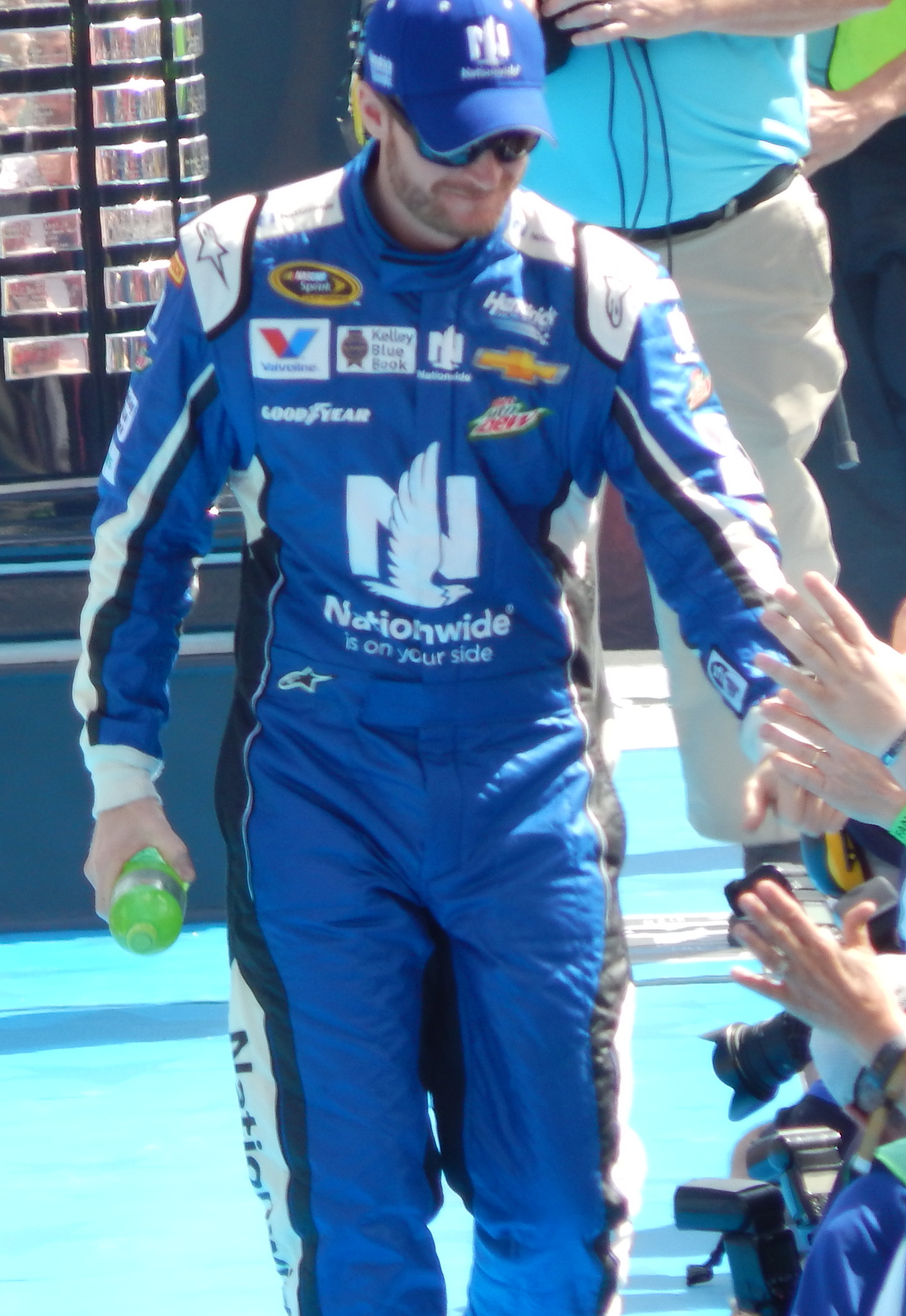 The favorite son and Pied Piper of Daytona walking down the stage at driver intro's at Daytona International Speedway.